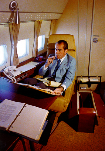 Nixon reading aboard Air Force One.